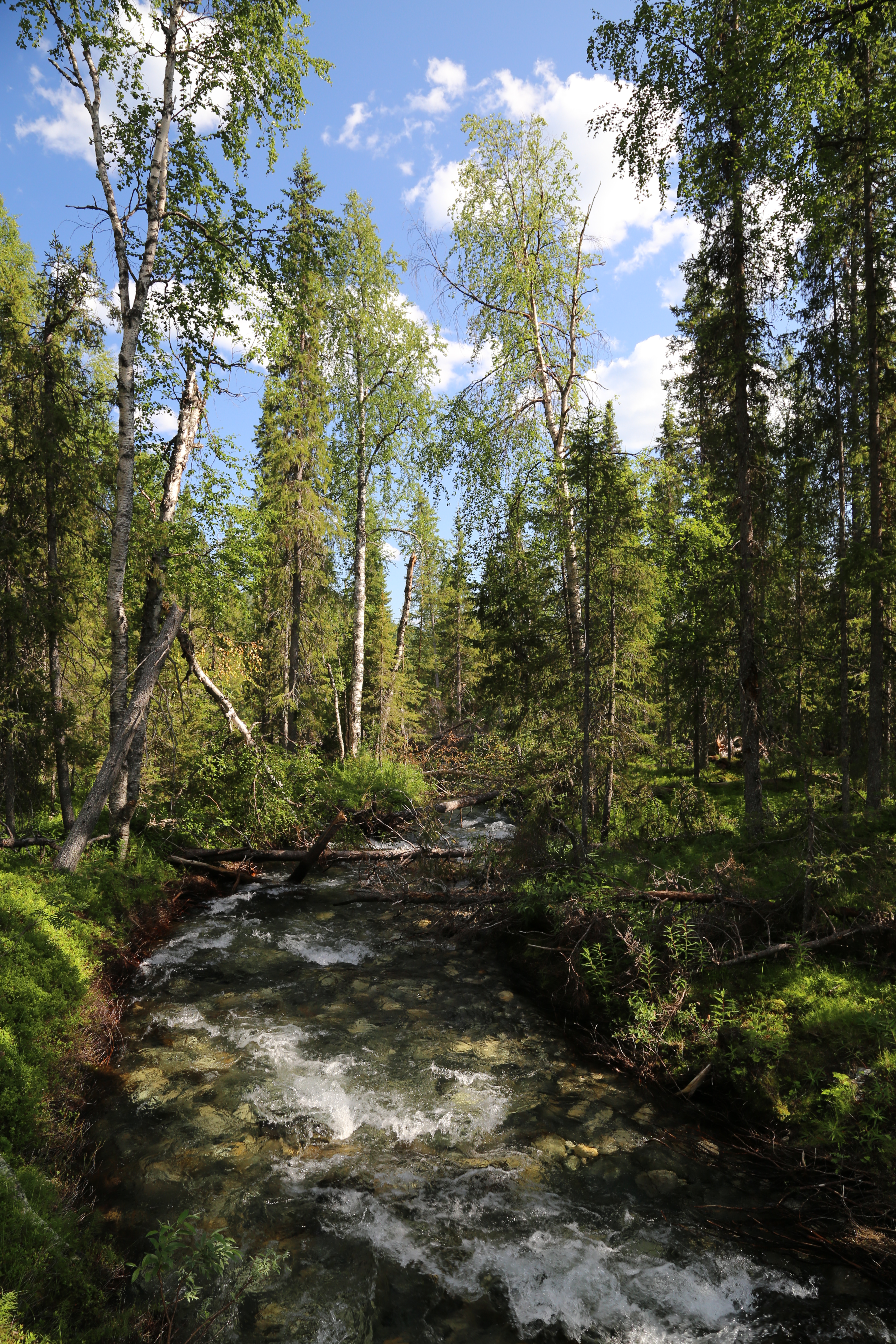 Padjelantaleden, Nordkalottleden and Áhkká massif in Sweden, in July or August 2014. This photograph is part of a series, which can be found in full in Category:Padjelantaleden and Nordkalottleden Trip in 2014. Some files have GPS coordinates associated, for others, the following overview might be helpful: Click here for approximate location at each date 25.7. Kvikkjokk and Njunjes 26.7. Njunjes and Tarrekaise 27.7. Tarrekaise and Sammerlappa, before the entrance to Padjelanta National Park 28.7. Tarraluoppal 29.7. Tuattar 30.7. Staloluokta 31.7. Arasluokta 1.8. Låddejåkkå 2.8. Kutjaure (Nordkalottleden) 3.8 + 4.8. Akkajaure, Akka mountains (Nordkalottleden and Padjelantaleden)